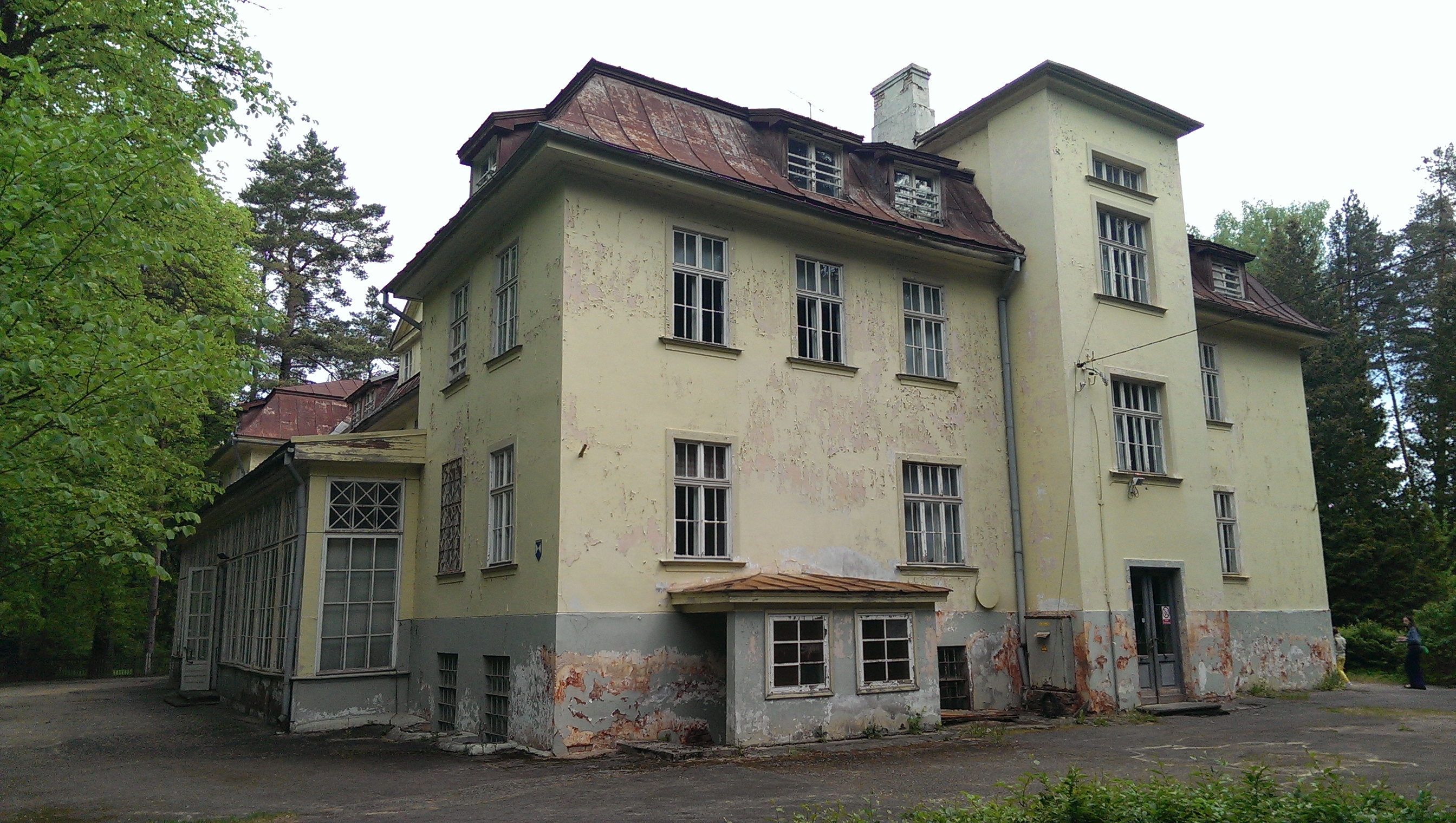 Children sanatorium Ogre